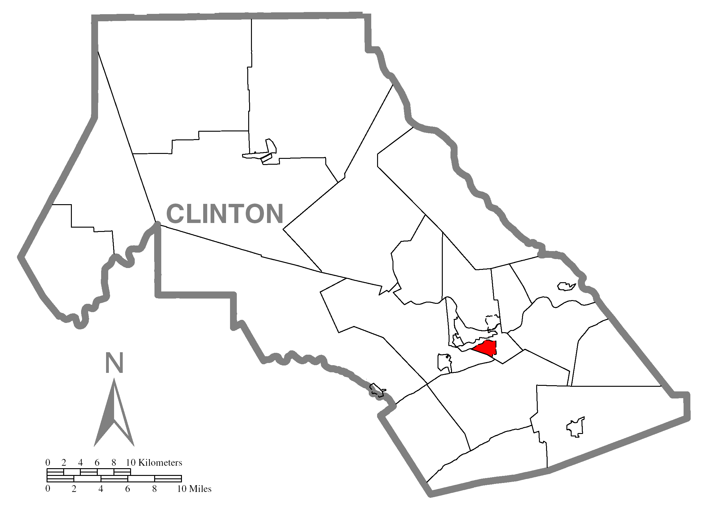 A map of Clinton County showing Castanea, Pennsylvania (alternate) highlighted on the map.